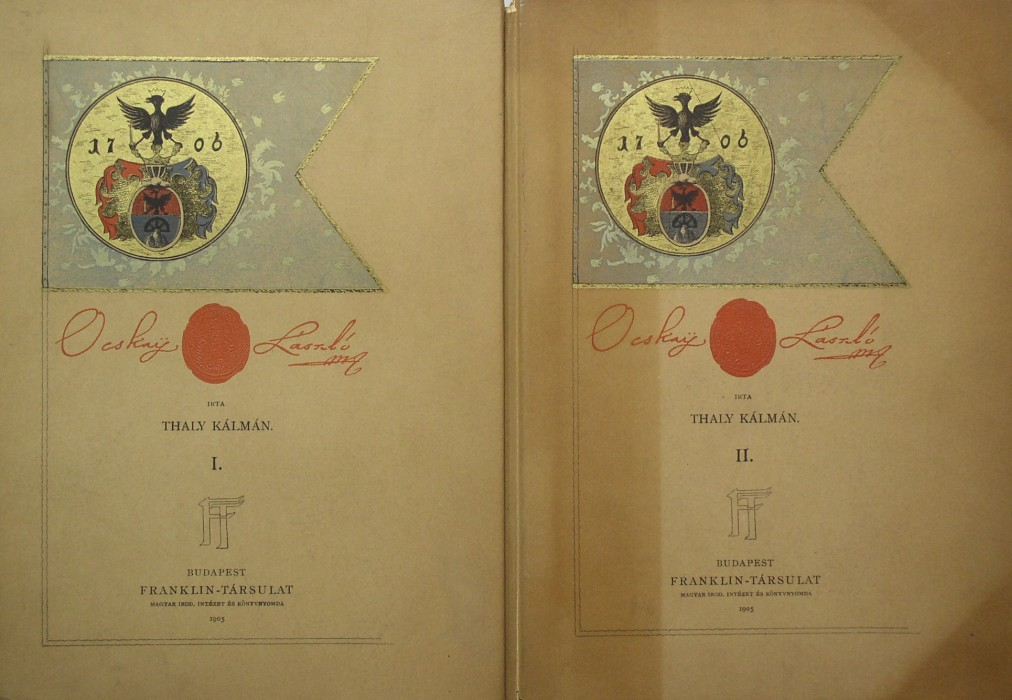 Könyv fedőlap Thali Kálmán:Ocskay László II. Rákóczi Ferencz fejedelem brigadérosa és a felső-magyarországi hadjáratok 1703-1710. Történeti tanulmány. Eredeti levelezések s más egykorú kútfők nyomán